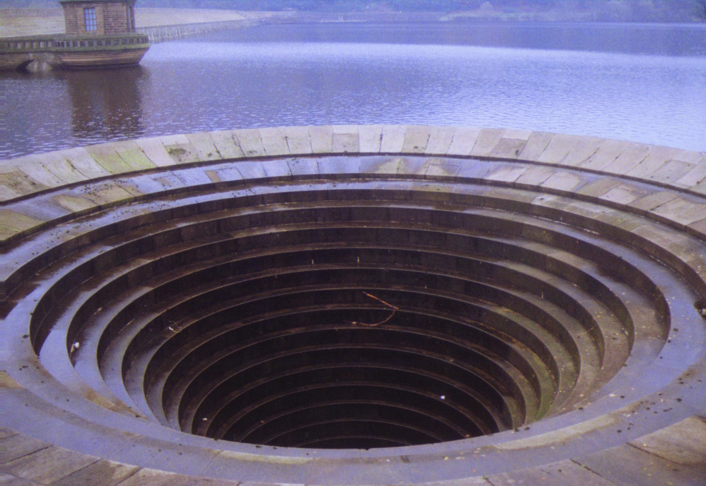 Outlet of Ladybower Reservoir, Peak District, Derbyshire, UK